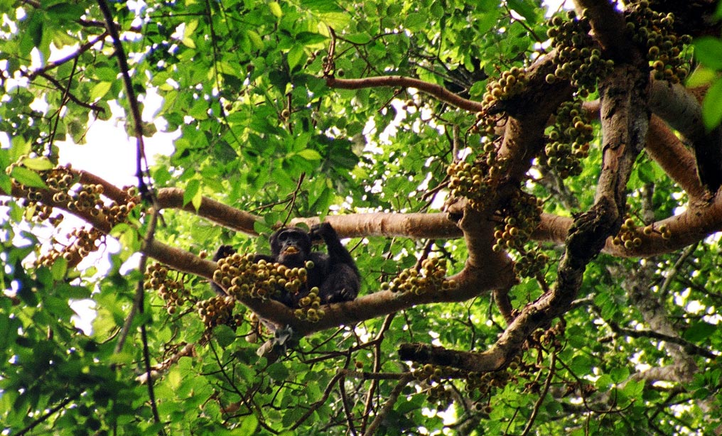 Chimpanzee eating figs in Kibale National Park Photograph taken 27 March 2004